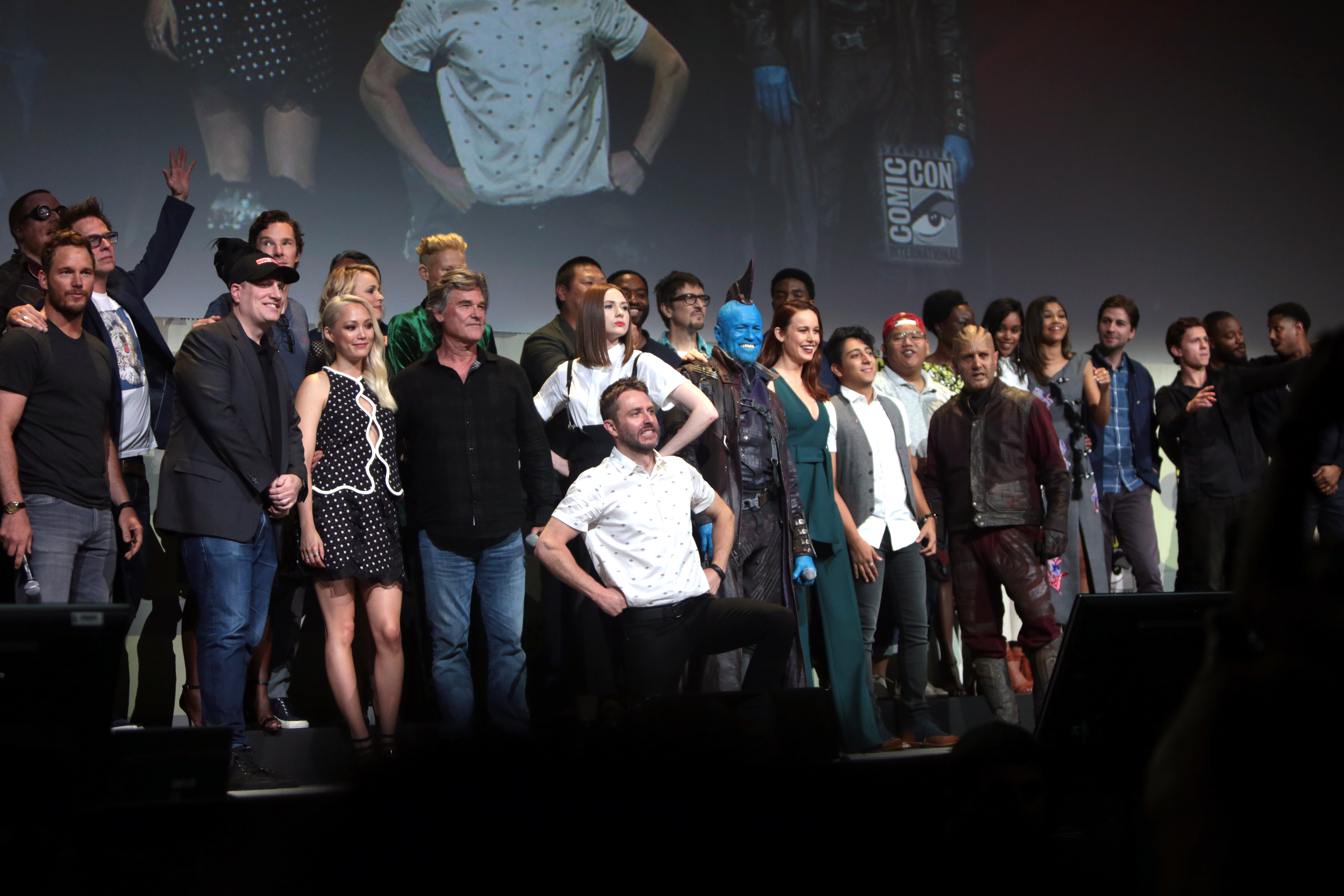 Marvel Studios panelists at the 2016 San Diego Comic Con International at the San Diego Convention Center in San Diego, California.